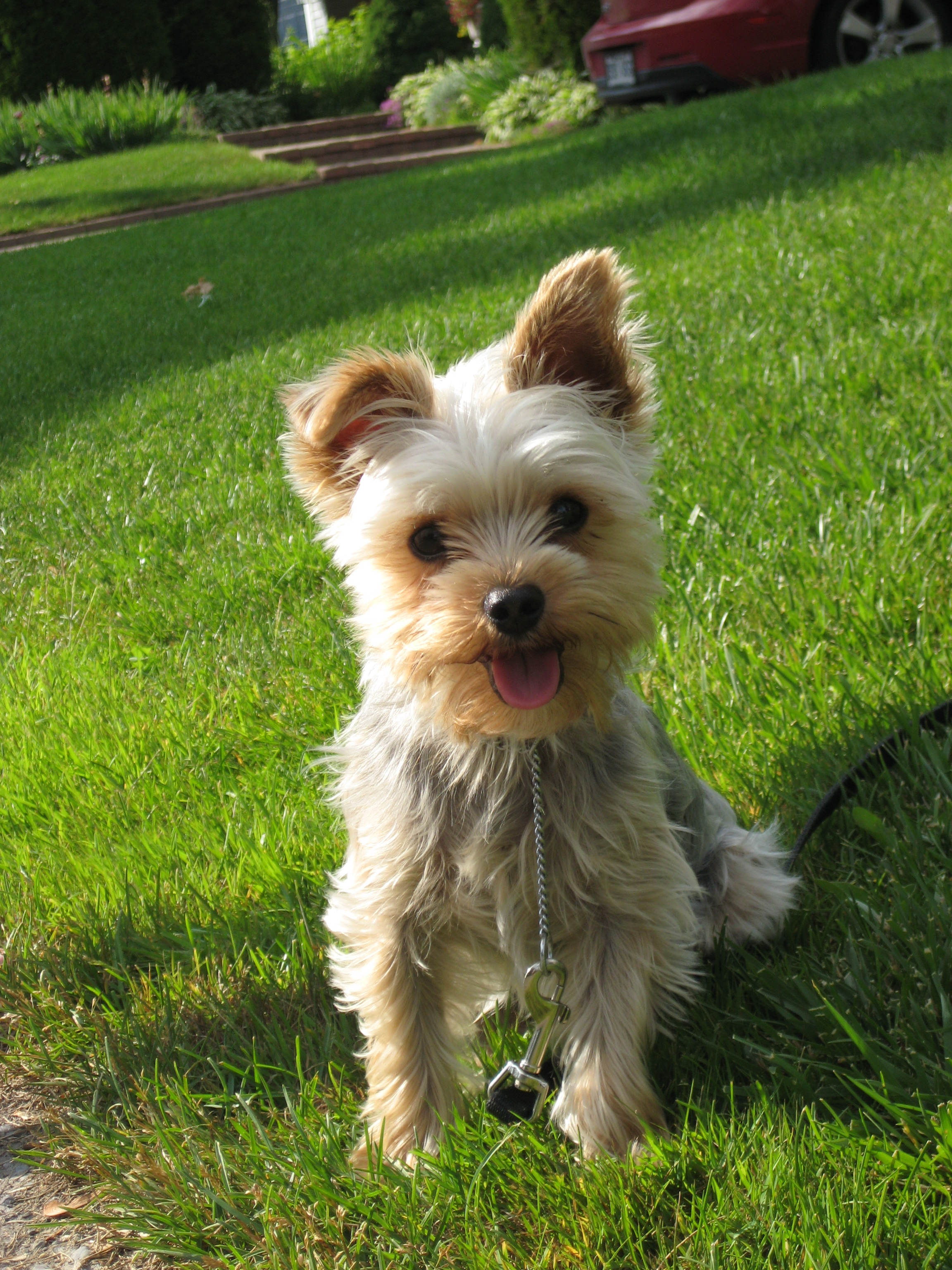 Yorkshire Terrier